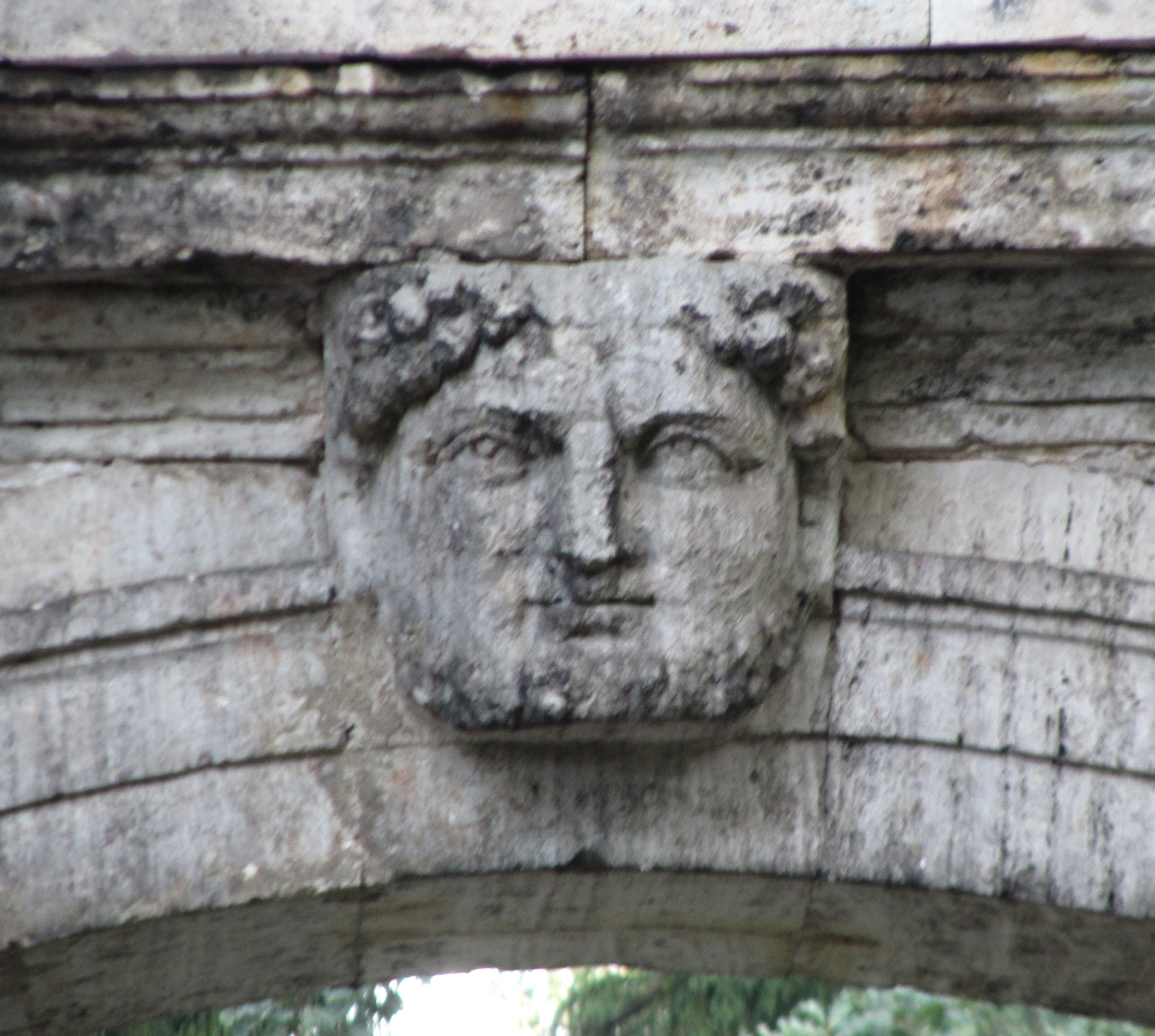 a mask on the Sylvia gate, Gatchina, Russia